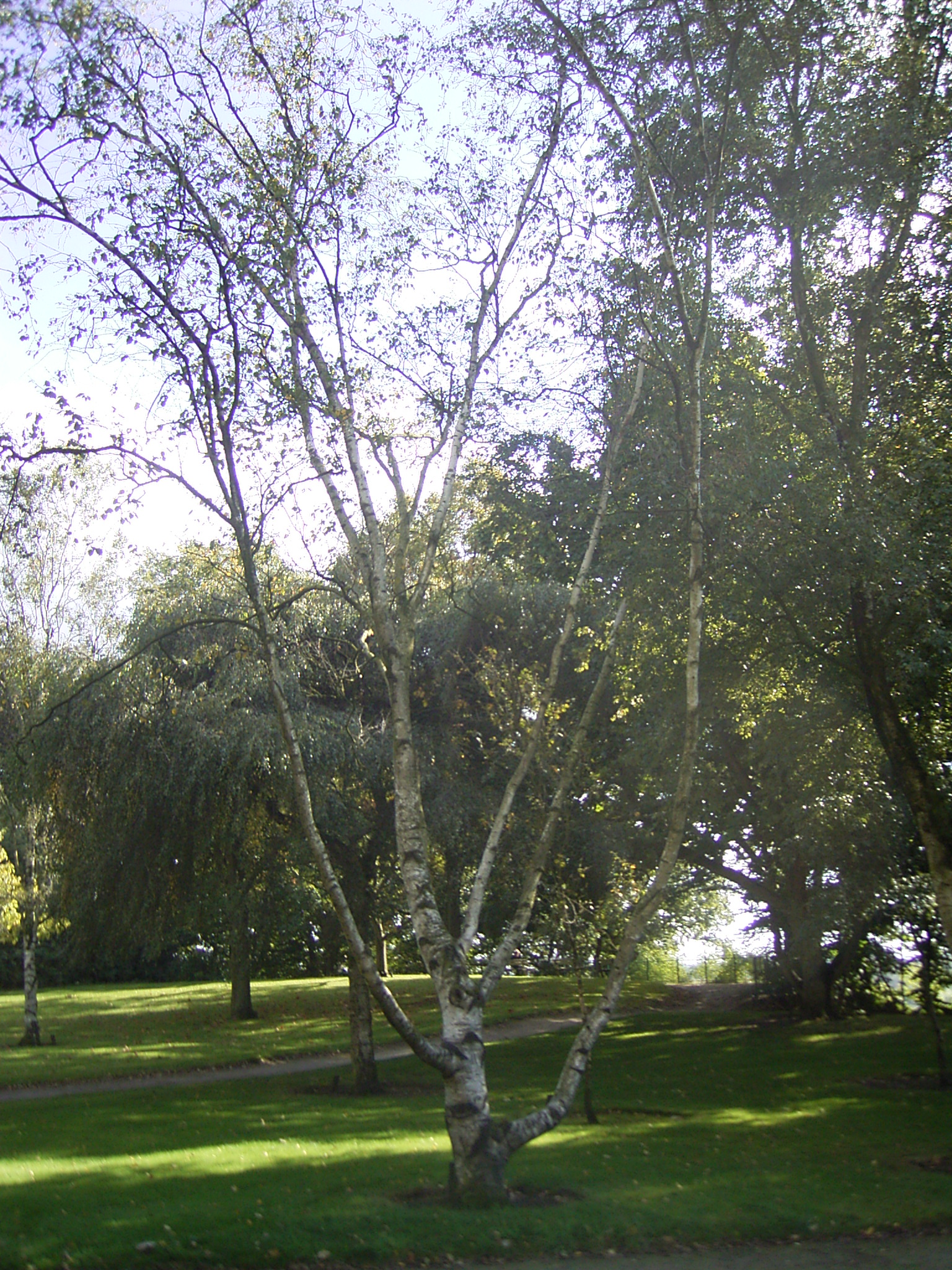 Deze foto toont de Betula papyrifera var. commutata. Ik nam de foto zaterdag 1 oktober 2005 in het arboretum van de landbouwuniversiteit in Wageningen. This pic shows Betula papyrifera var. commutata. I took the photo on saturday 1 october 2005 in Wageningen, Netherlands.